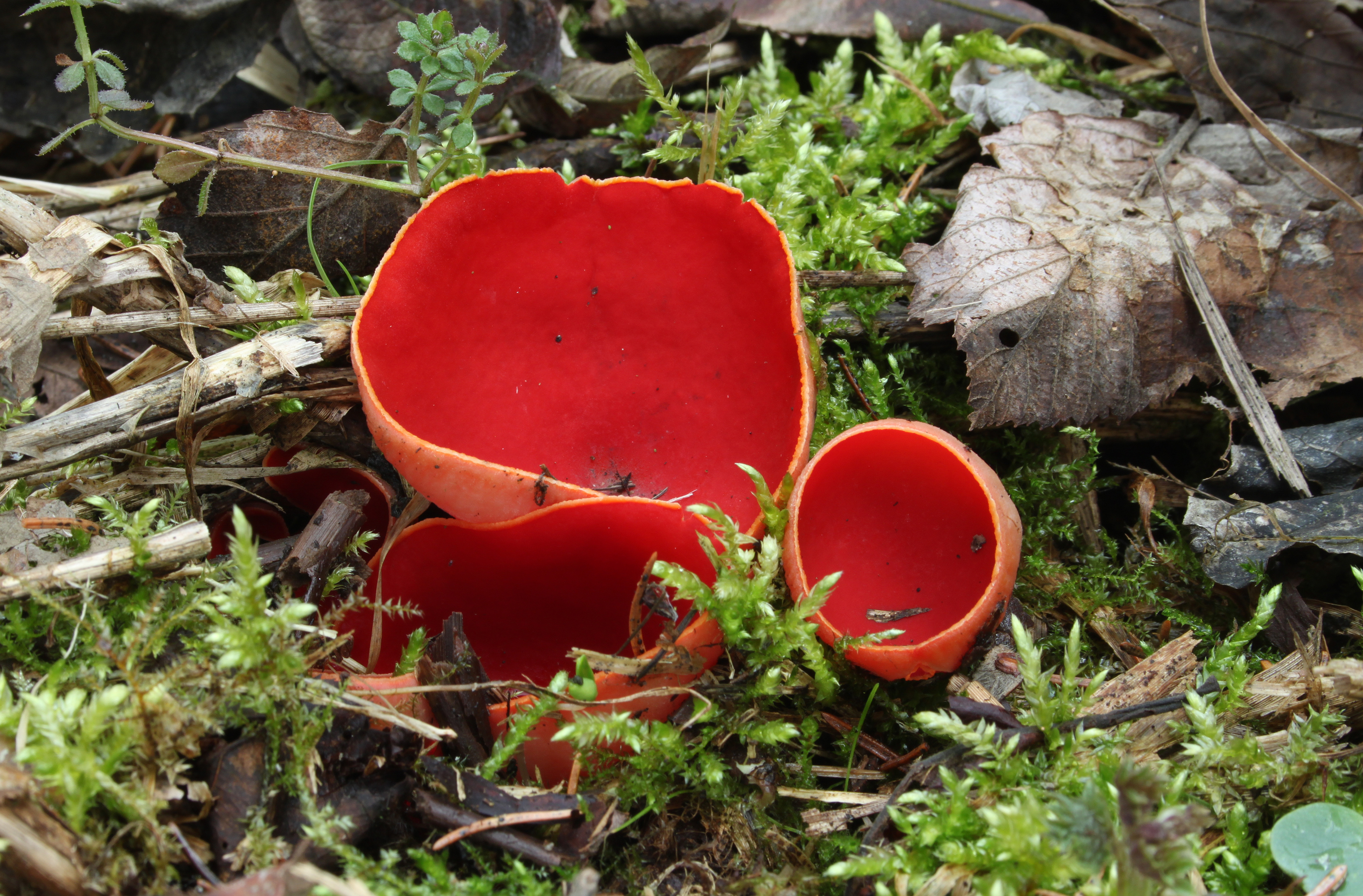 Scarlet Elfcup, Sarcoscypha austriaca syn. Peziza austriaca, Family: Sarcoscyphaceae, Location: Germany, Biberach an der Riss, Ummendorf